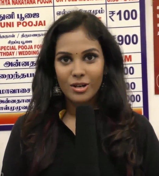 Chandini Tamilarasan press meet movie Karichoru